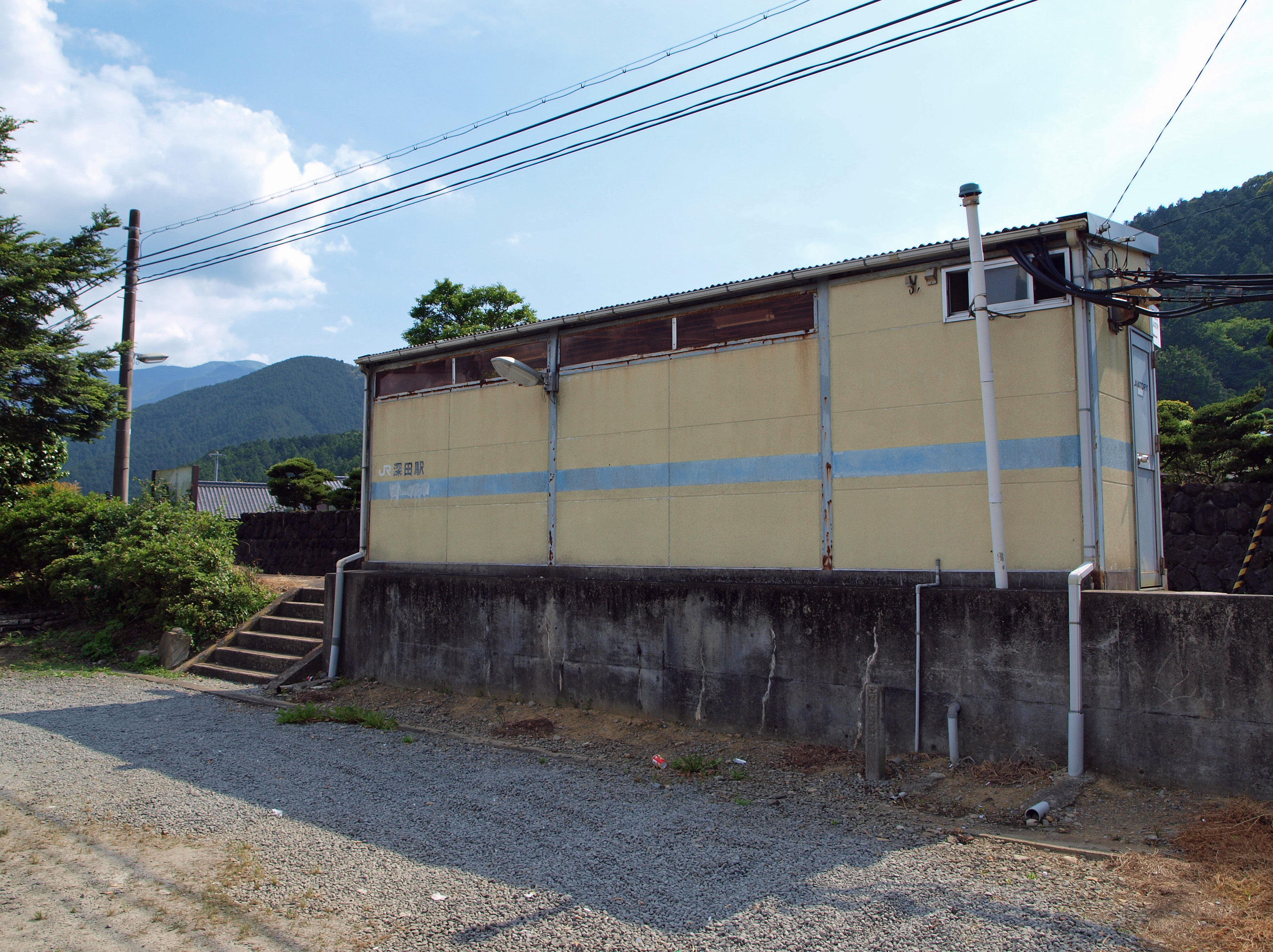 Fukata station, Yodo-line, JR Shikoku, Japan